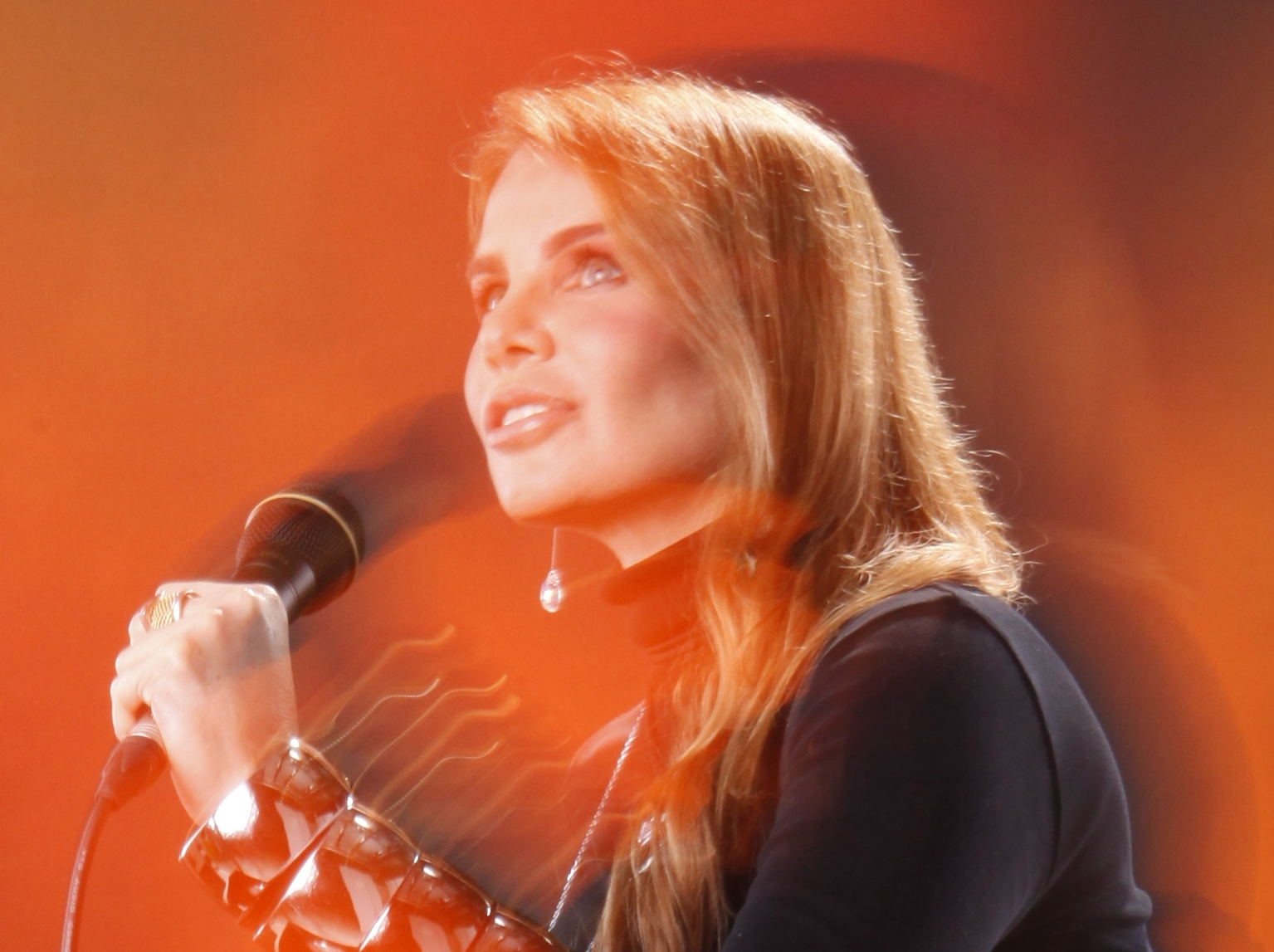 Maria Rivas in 2010